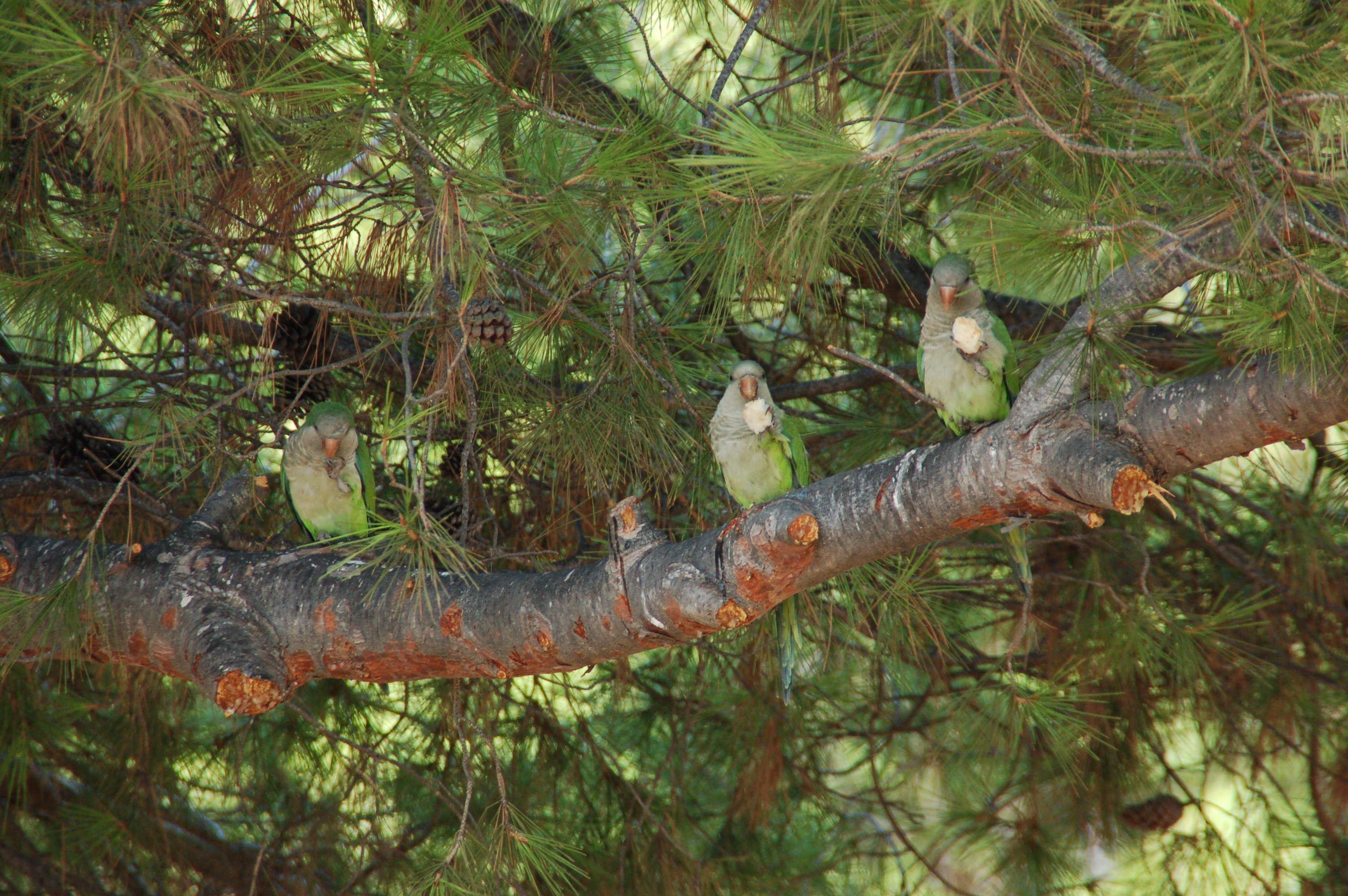 A Myiopsitta monachus in Santa Ponsa, Mallorca, Spain.